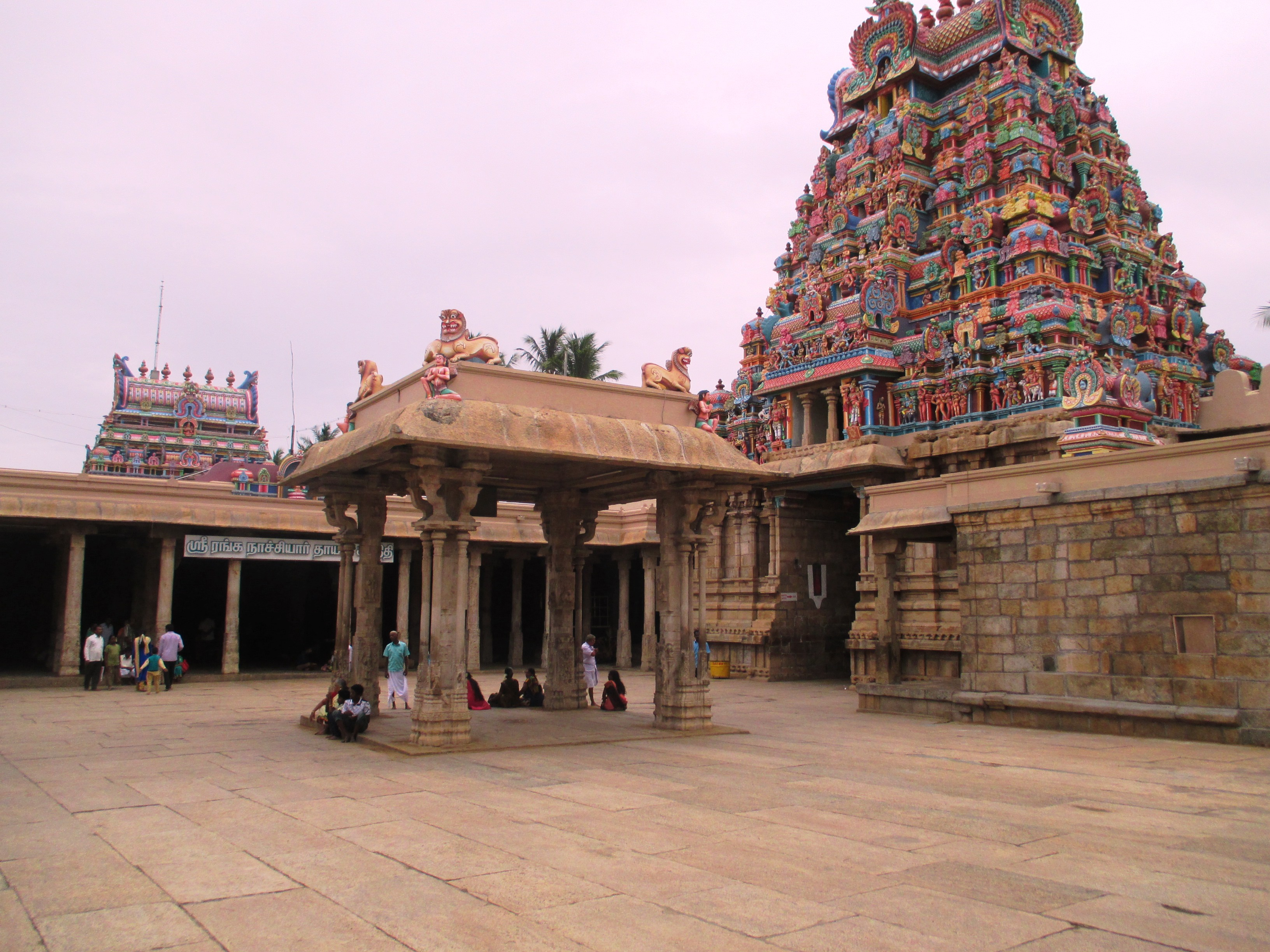 Sri Ranganathaswamy Temple (Srirangam)